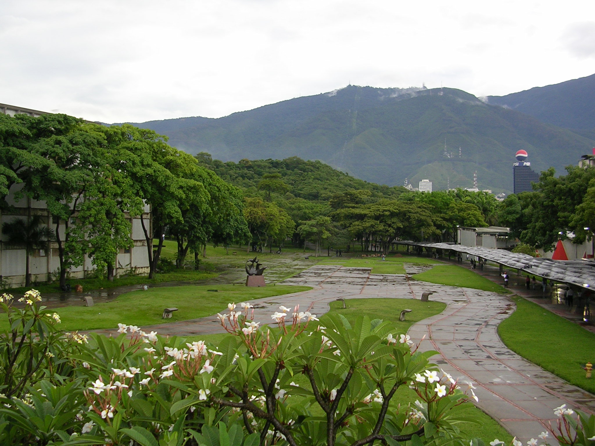 View of "Tierra de Nadie" from the library, Ciudad Universitaria de Caracas. Photo by Caracas1830 (2005)